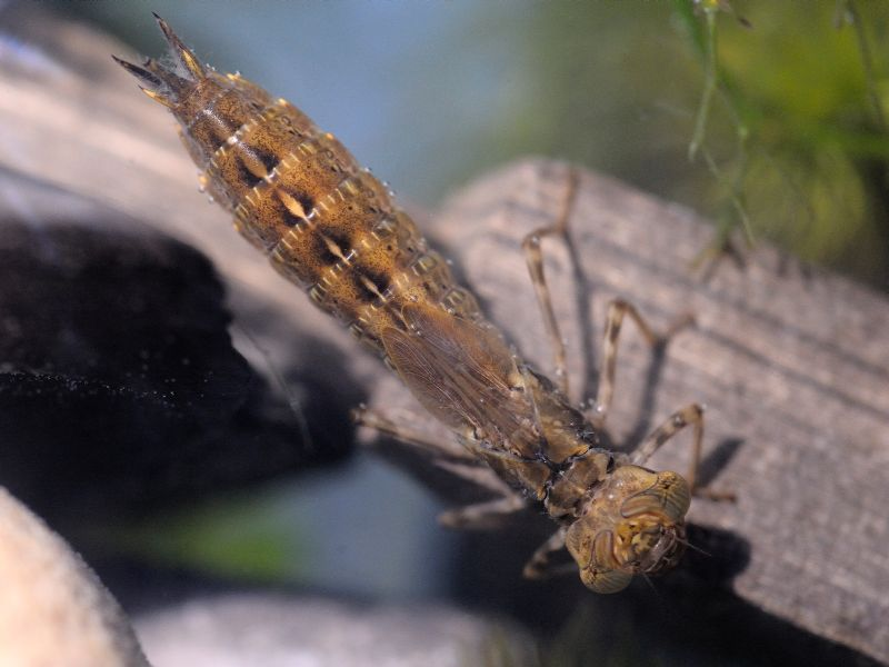 This is a smaller file size version derived directly from this: and created for an application on Wikieducatorl. Original by user:Yami no Yami